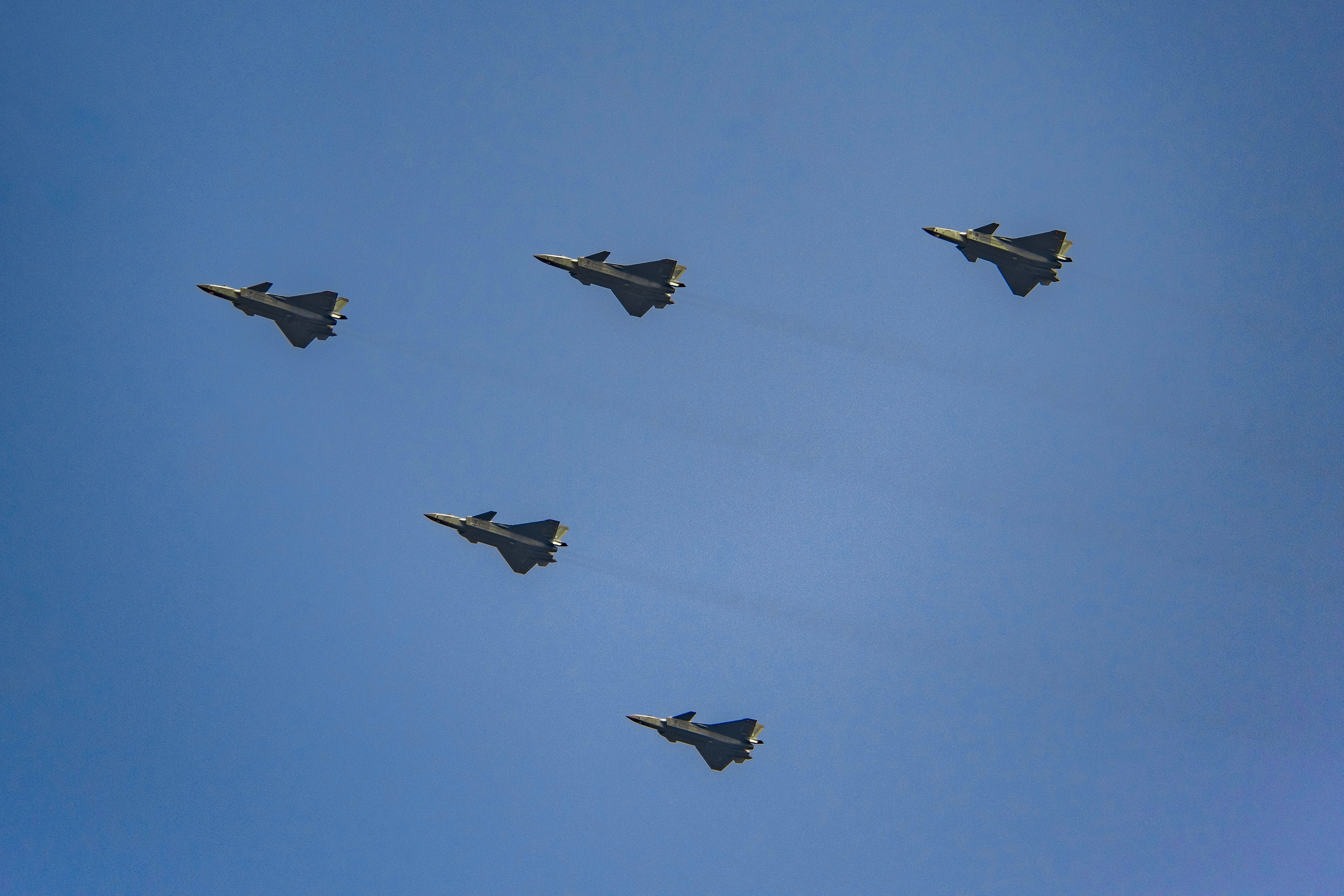 Nearly hidden among helicopters.